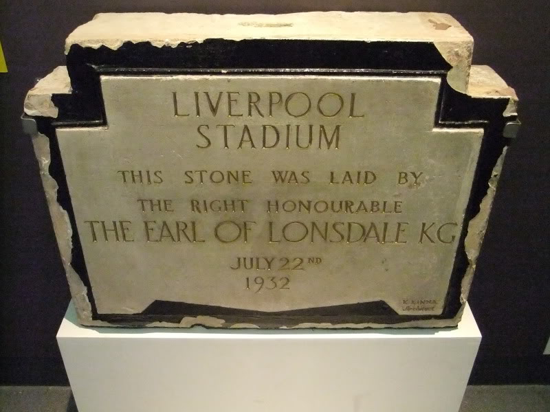 Liverpool Stadium foundation stone. On display at the Museum of Liverpool, England.